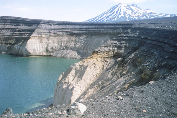 Peulik Volcano (background) and Ukinrek Maar (foreground), Alaska Peninsula, Alaska.